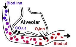 gas diffusion